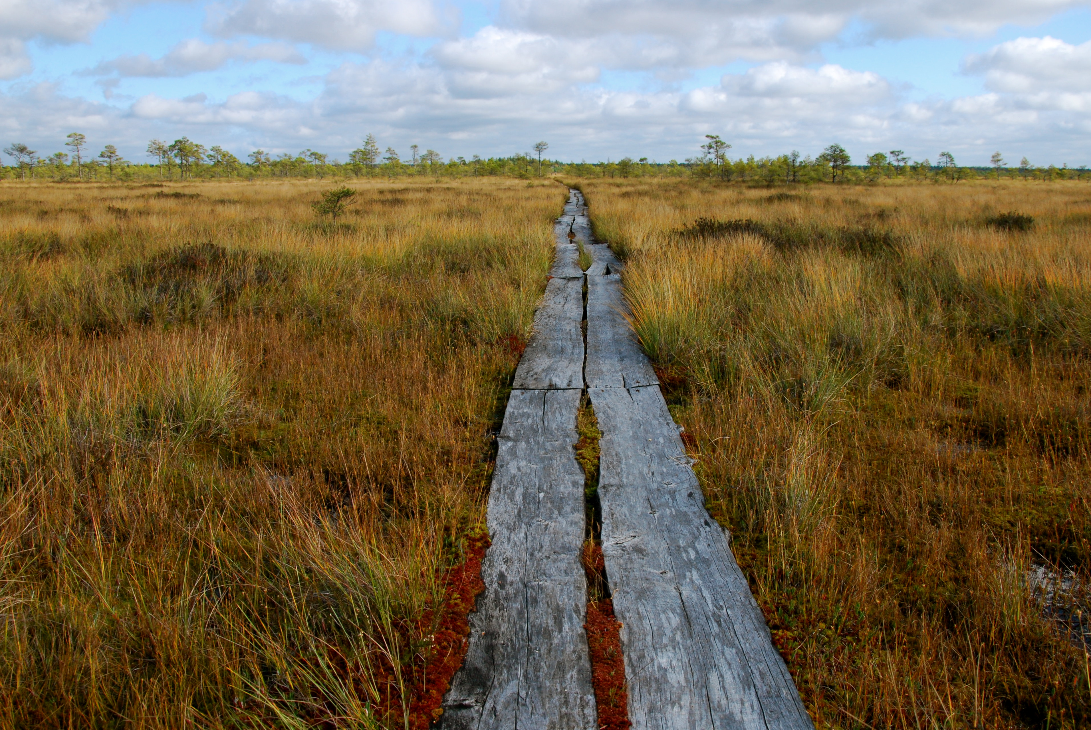 A boardwalk over wetlands at Marimetsa bog in Lääne County, Estonia